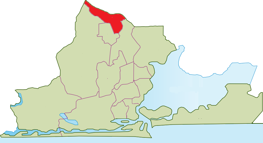 Location of Ifako Ijaiye in Lagos Metropolitan Area